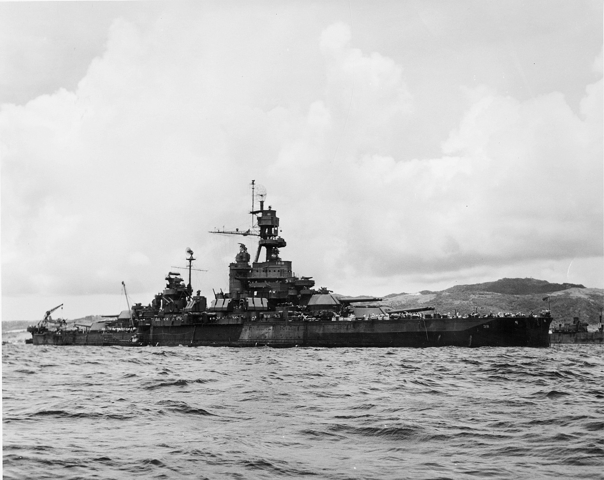 The U.S. Navy battleship USS Pennsylvania (BB-38) at anchor at an unidentified location, 1945-1946. Note the Curtiss SC-1 Seahawk floatplane aft.